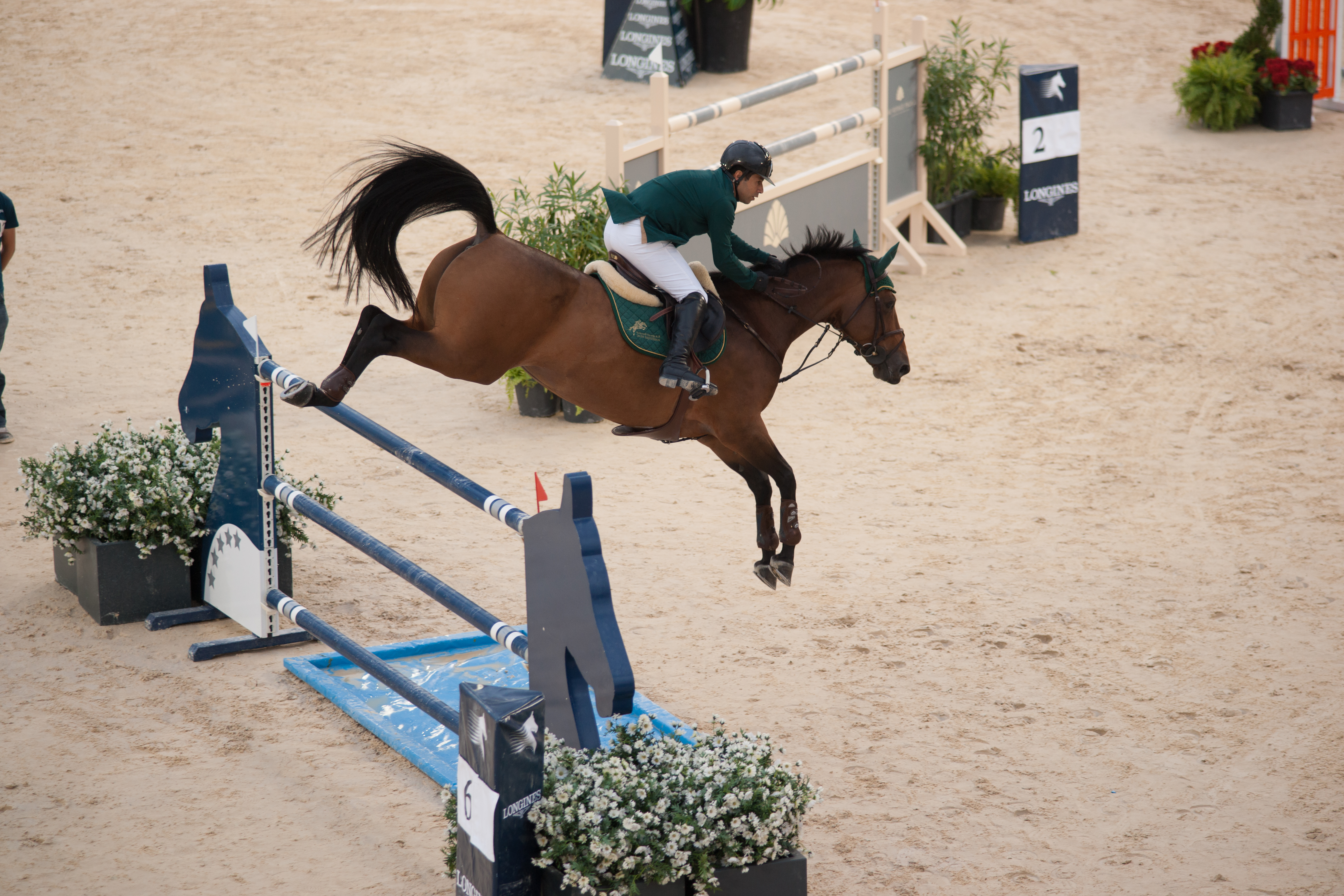 The making of this document was supported by Wikimedia CH. (Submit your project!) For all the files concerned, please see the category Supported by Wikimedia CH. 2013 Longines Global Champions Tour